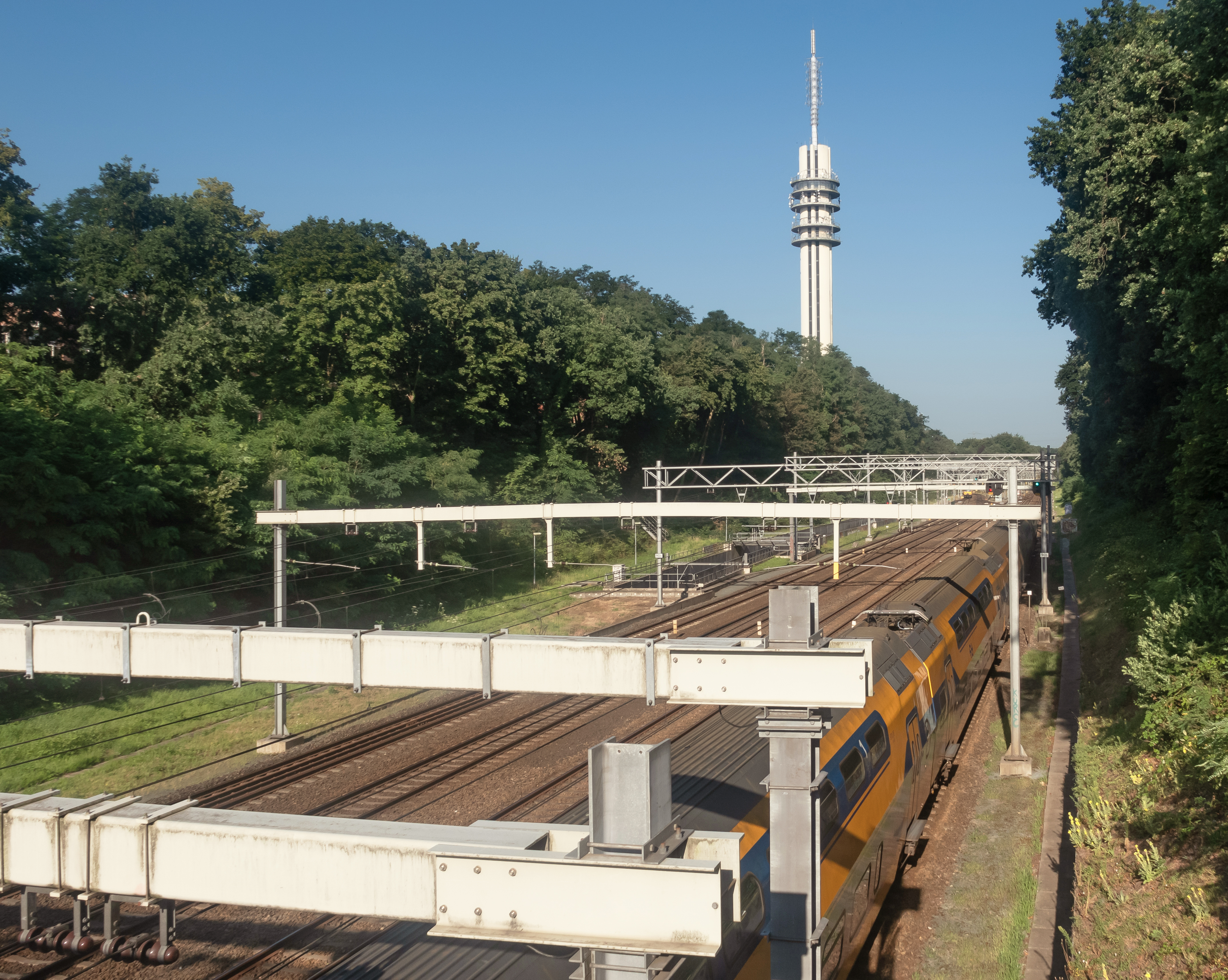 Arnhem, view to the KEMA tower from bridge over the railway